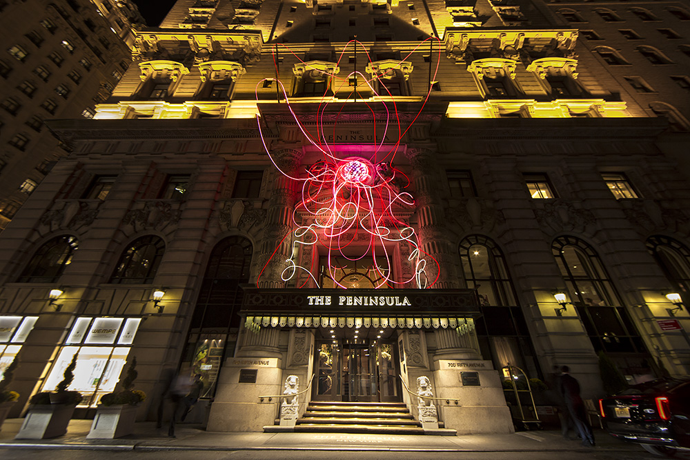 Light installation "Pink Lotus" at Peninsula New York by Grimanesa Amoros Oct 2015